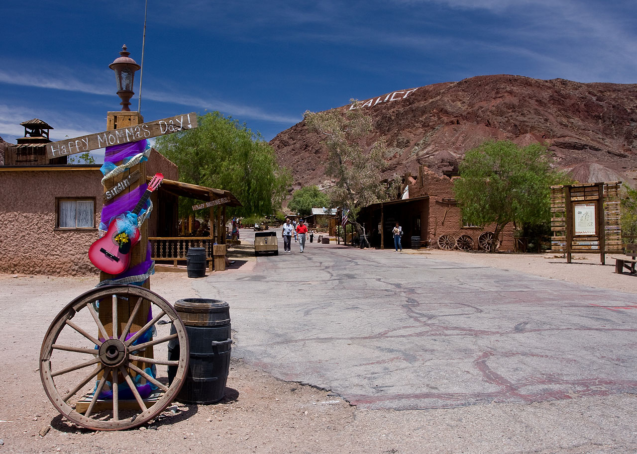 Calico - a ghost town located in the Mojave Desert region of Southern California, USA.